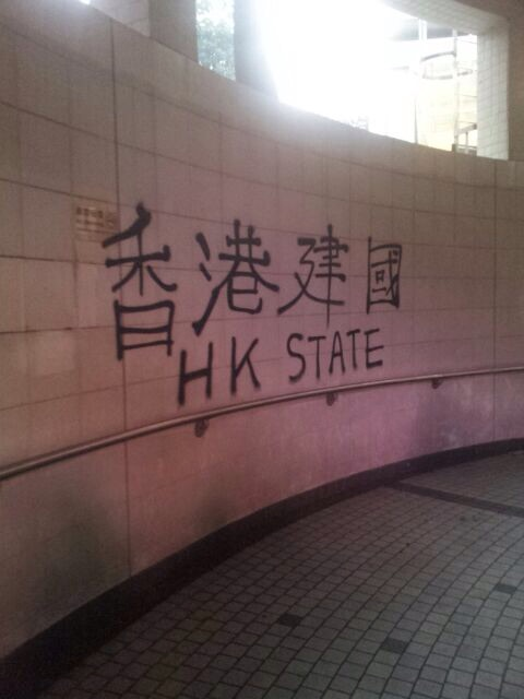 "HK STATE" in Peking Road, Hong Kong